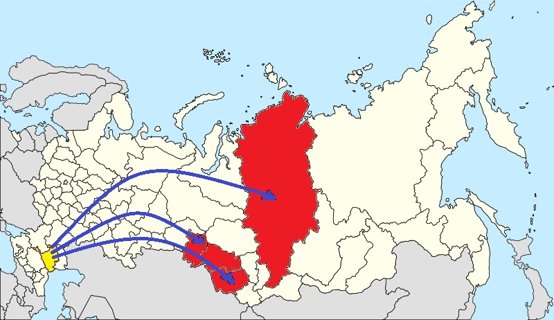 Map of the Kalmyk deportations of 1943. Yellow=Kalmykia. Red= Omsk Oblast, Krasnoyarsk Krai, Altai Krai, Novosibirsk Oblast (destination of the deportees). Source: Polian, Pavel (2004). Against Their Will: The History and Geography of Forced Migrations in the USSR. Budapest; New York City: Central European University Press, p. 145. ISBN 9789639241688. Use of Wikimedia map as the basis